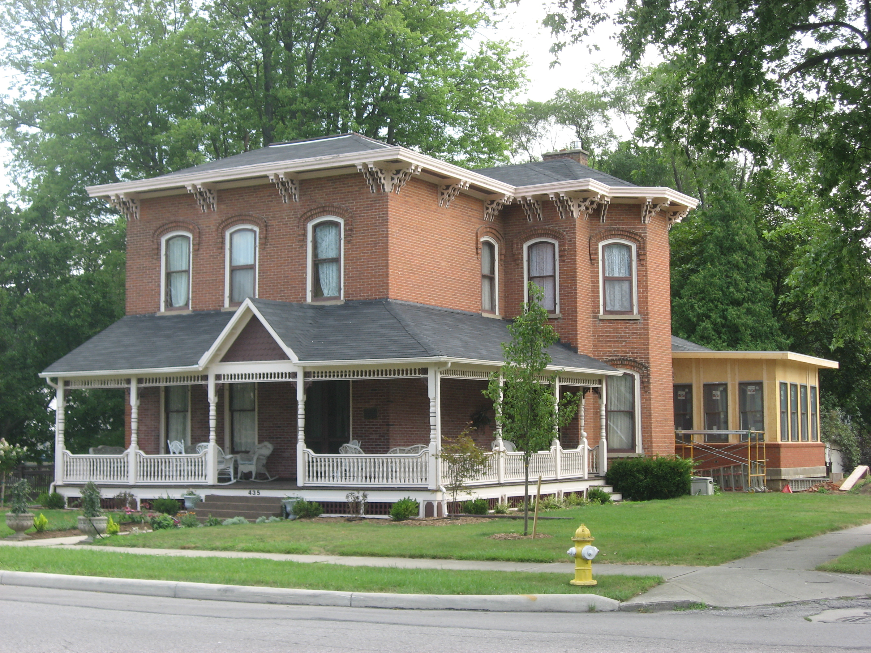 Front and southern side of the Jones-Read-Touvelle House, located at 435 E. Park Street in Wauseon, Ohio, United States. Built in 1875, it is listed on the National Register of Historic Places.